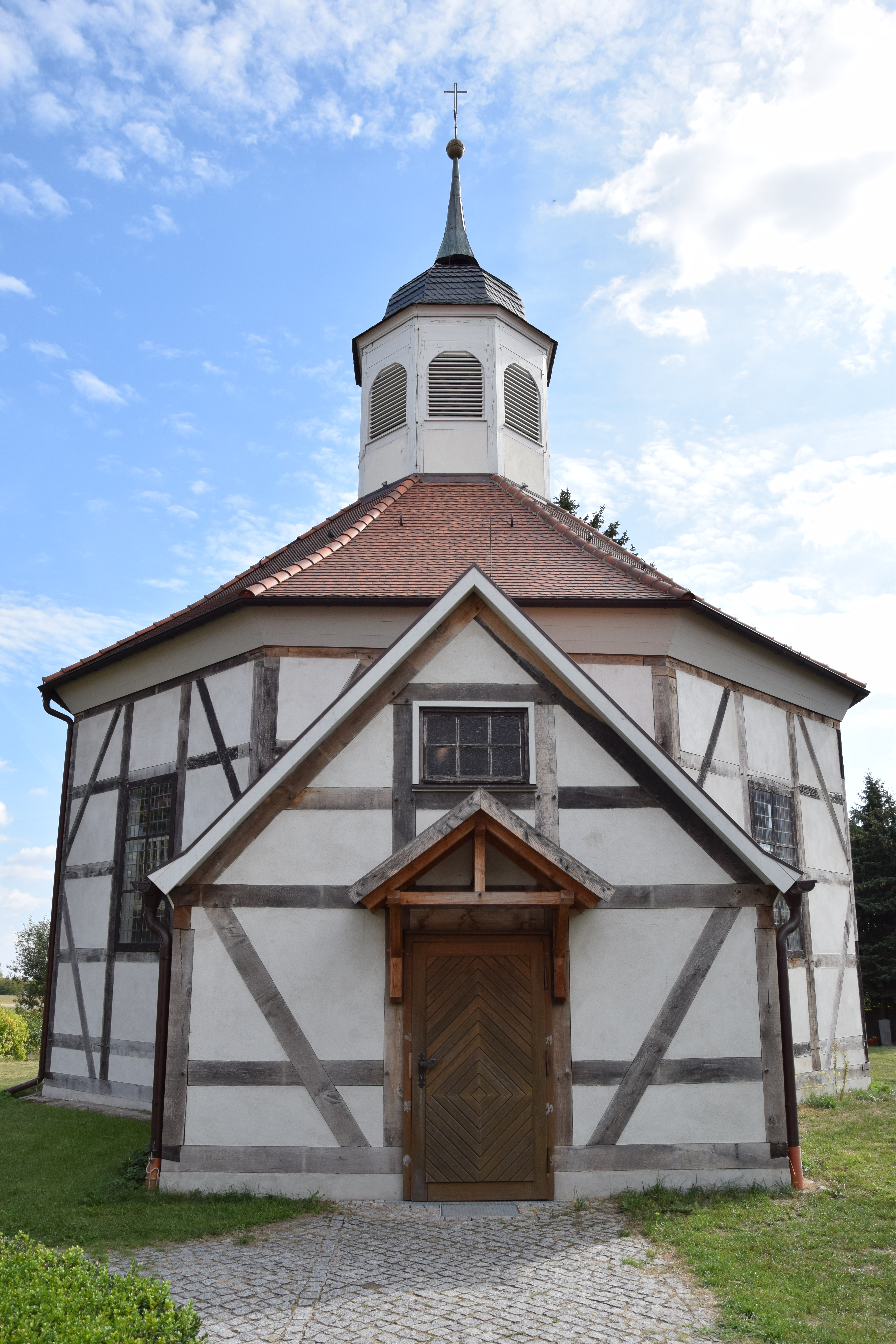 Church of Garz (Havelberg), Germany